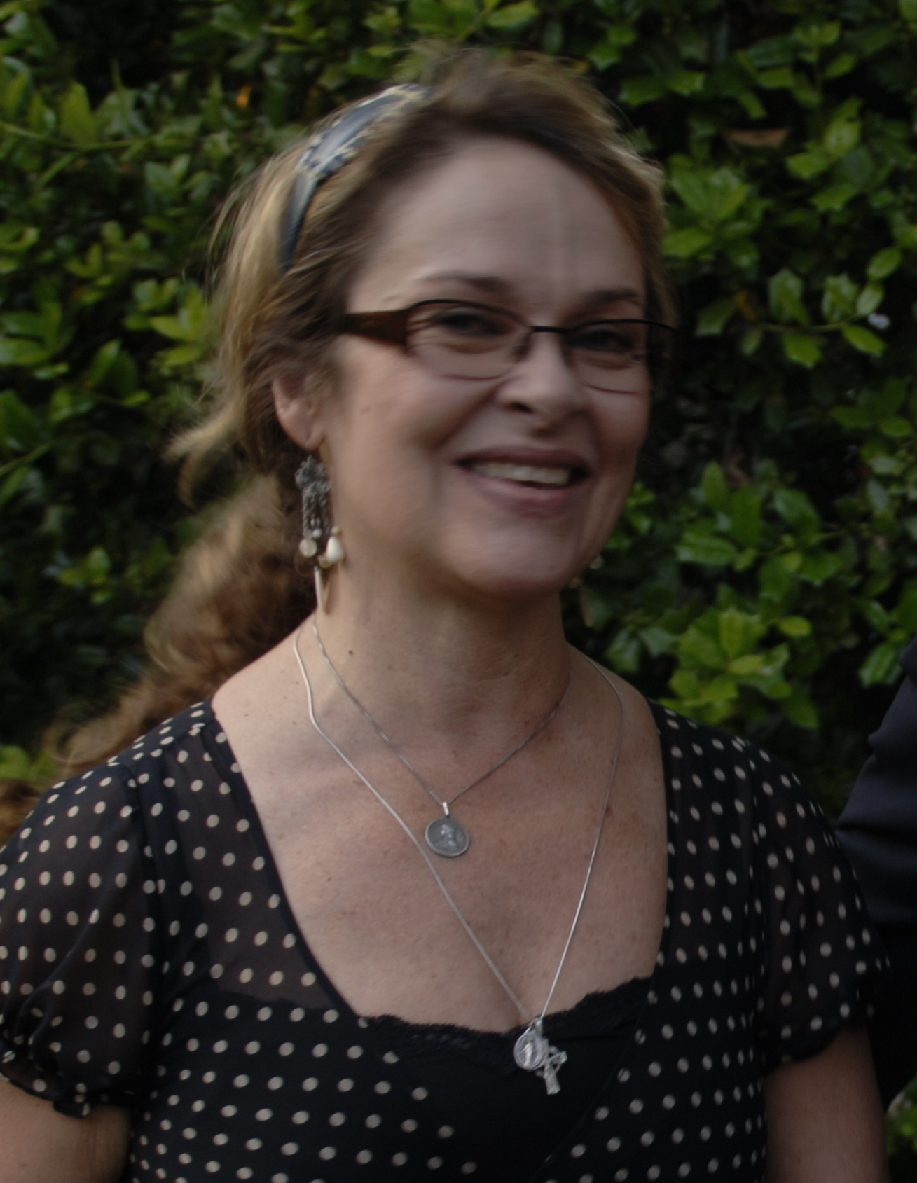 Moira Harris at an Evening Parade reception at the Home of the Commandants in Washington, D.C., May 25, 2007.